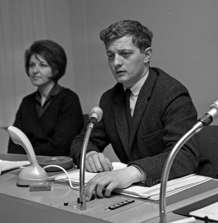 Johnny Bergh. TV-producer, script writer and director. Here in the control room from a tv broadcast in the 1960s, from the Central theatre in Oslo, Norway. Together with Lillian Onstad.